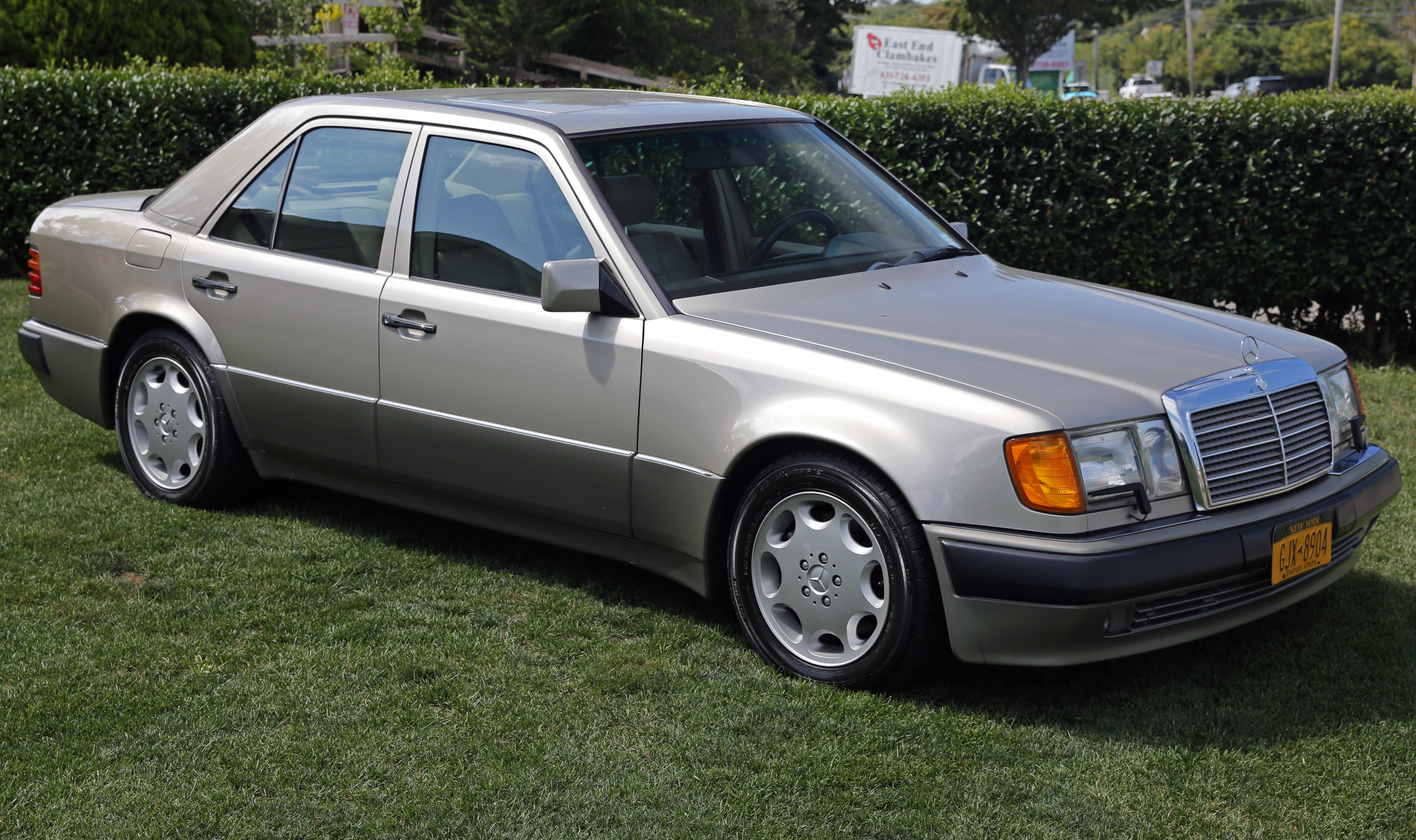 A 1992 Mercedes-Benz 500E in immaculate condition, at a classic car garage in Southampton, NY.